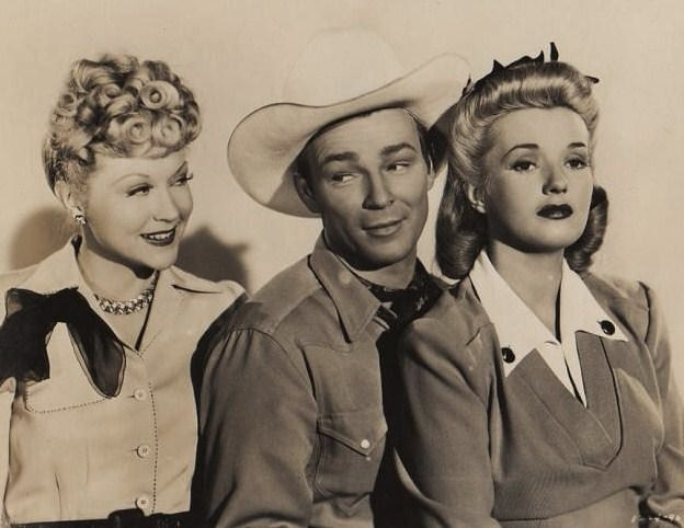 L. to R. : Joyce Compton, Roy Rogers, and Phyllis Brooks in Silver Spurs (1945) - publicity still (cropped : see source)